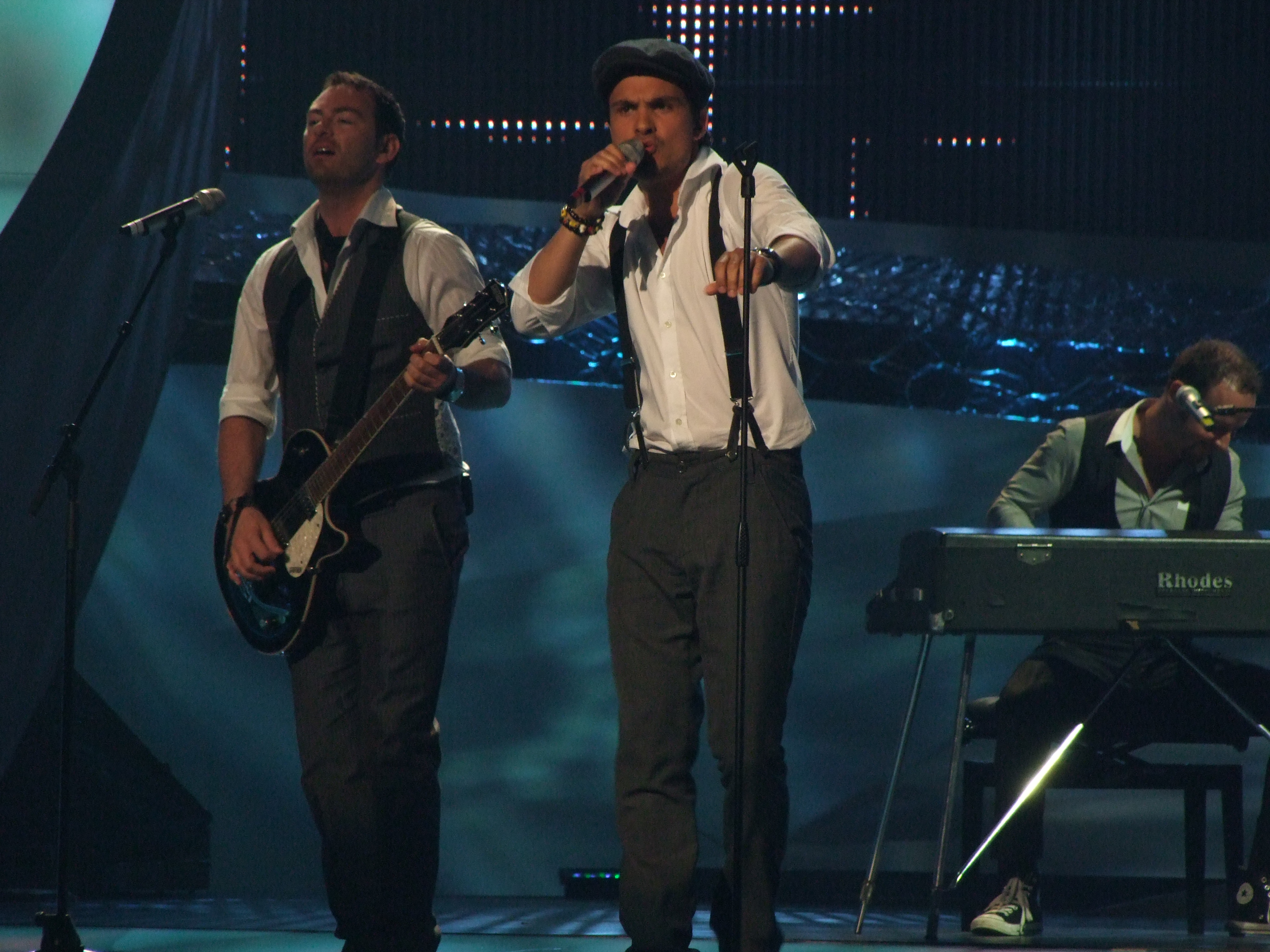 Simon Mathew in the 2nd semi-final at the Eurovision Song Contest in Belgrade, Serbia, May 22, 2008.